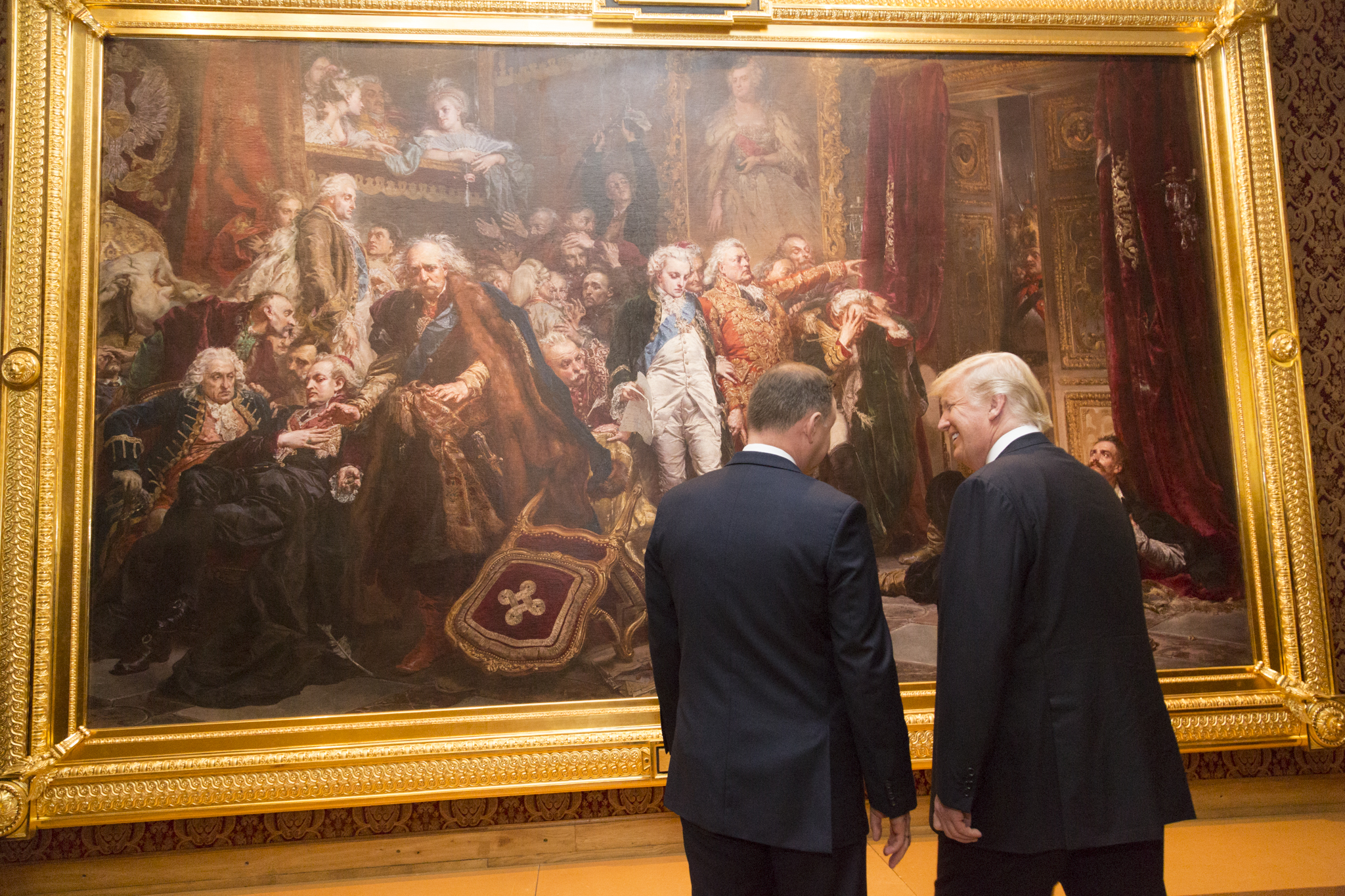 President Donald J. Trump and President Andrzej Duda | July 6, 2017 (Official White House Photo by Shealah Craighead)